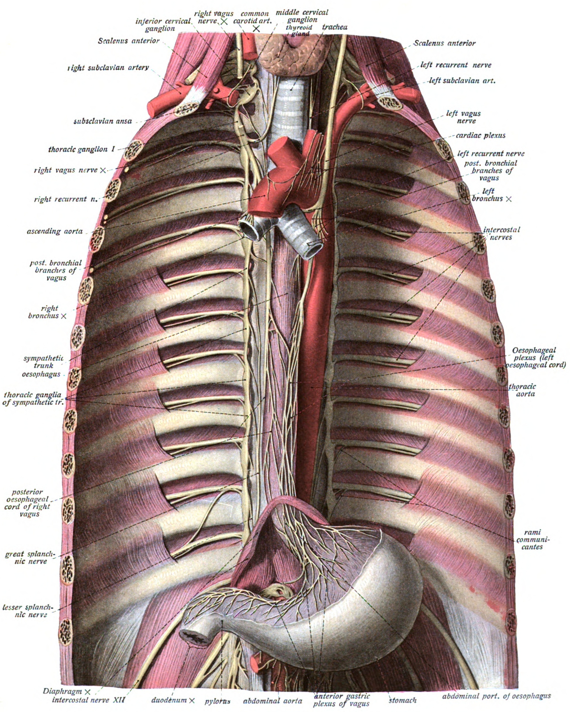 An anatomical illustration from Sobotta's Human Anatomy 1909